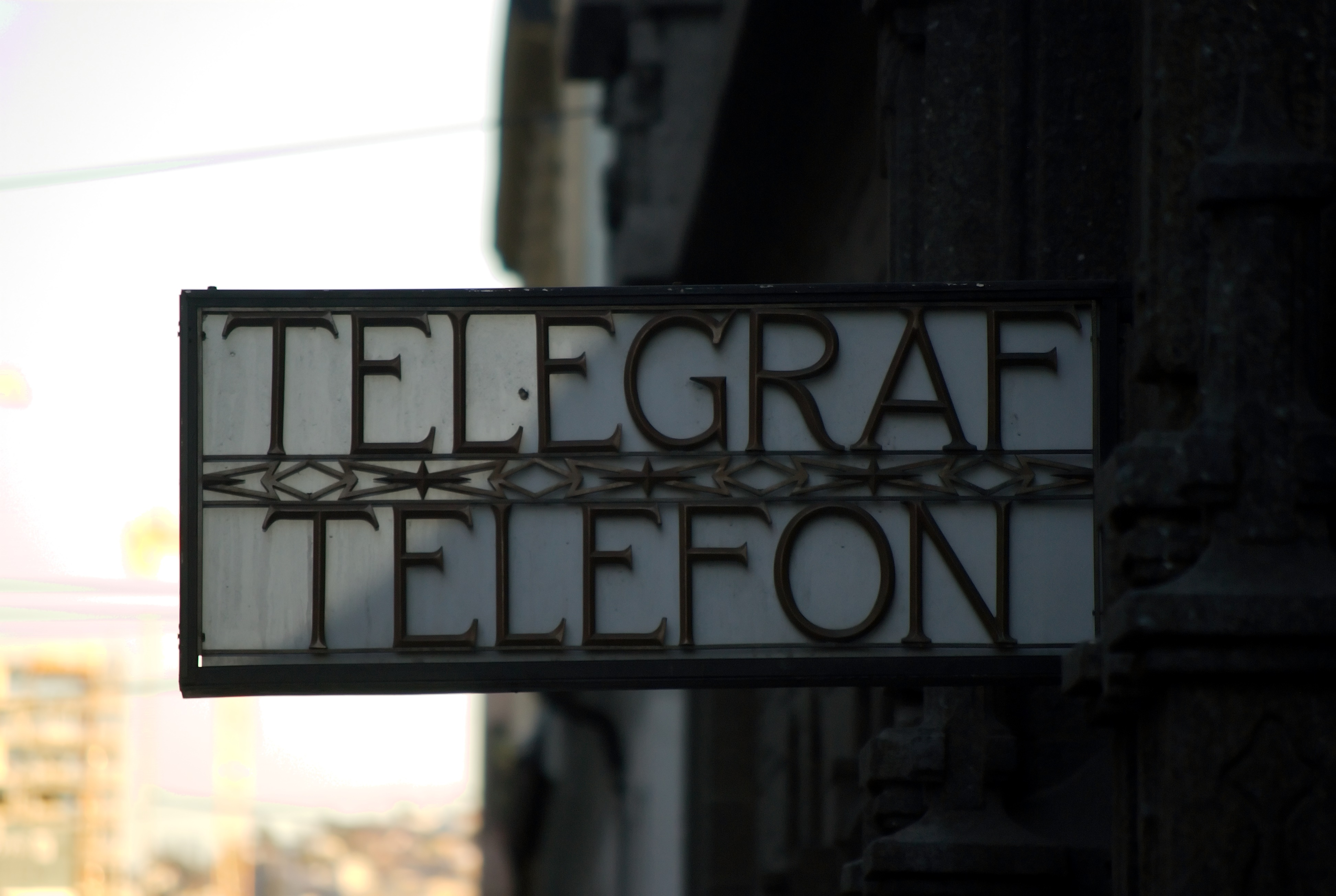 Sign for telephone and telegraph at the old post office in Oslo, Norway